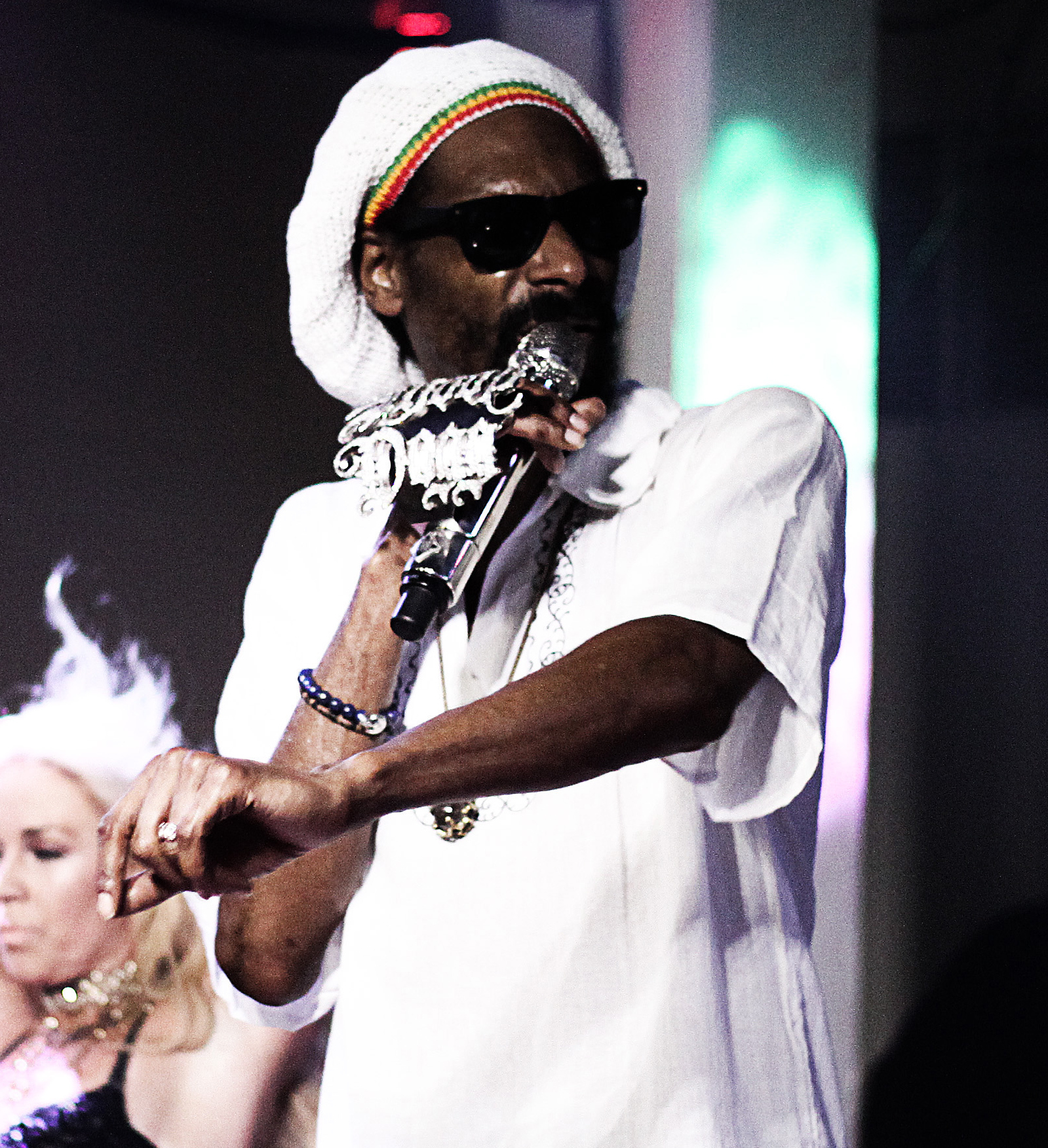 Snoop Dogg Takes the Stage at The Hoxton in Toronto, Ontario on August 2012.